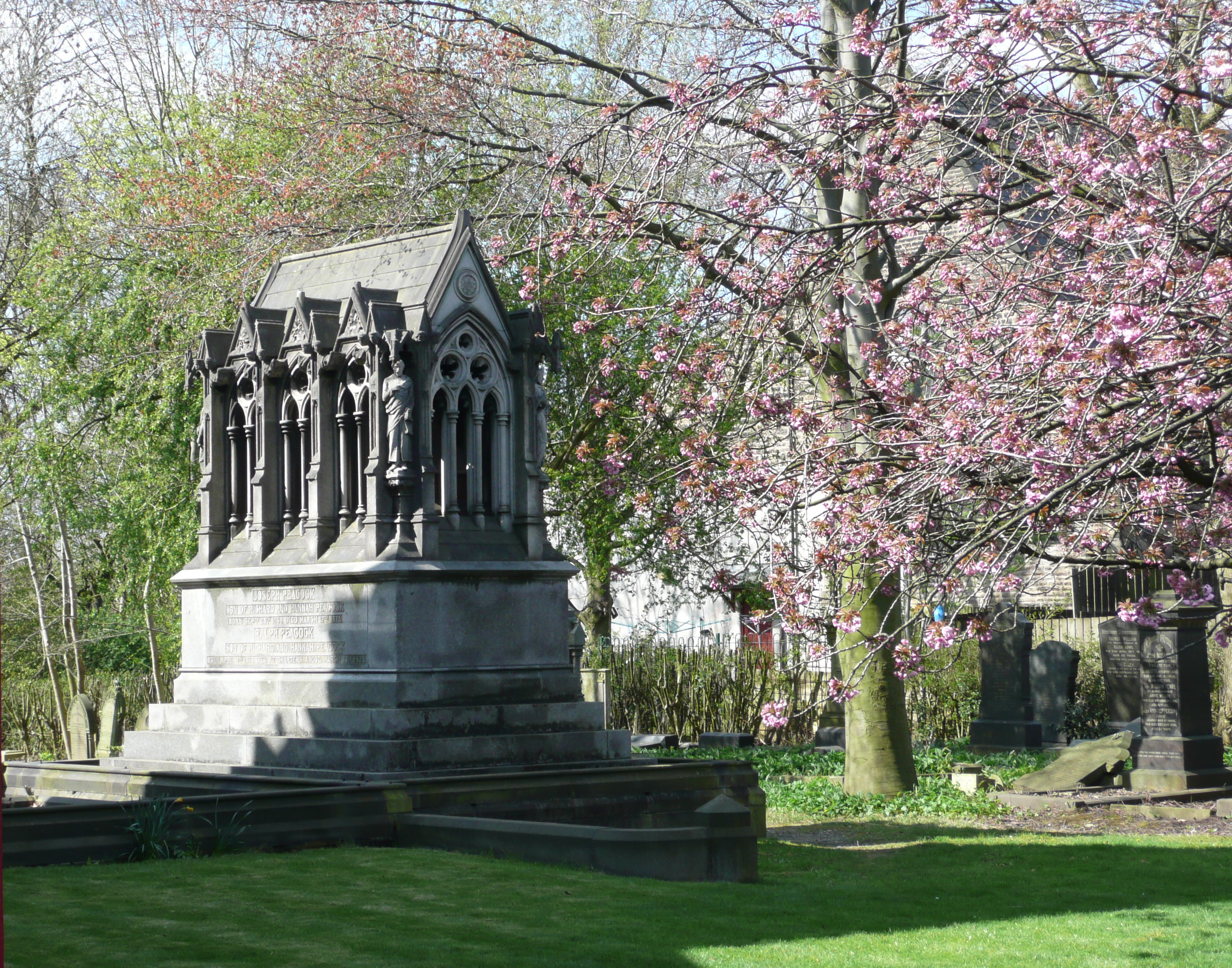 Peacock Family Memorial, Brookfield Unitarian Church, Gorton, Manchester